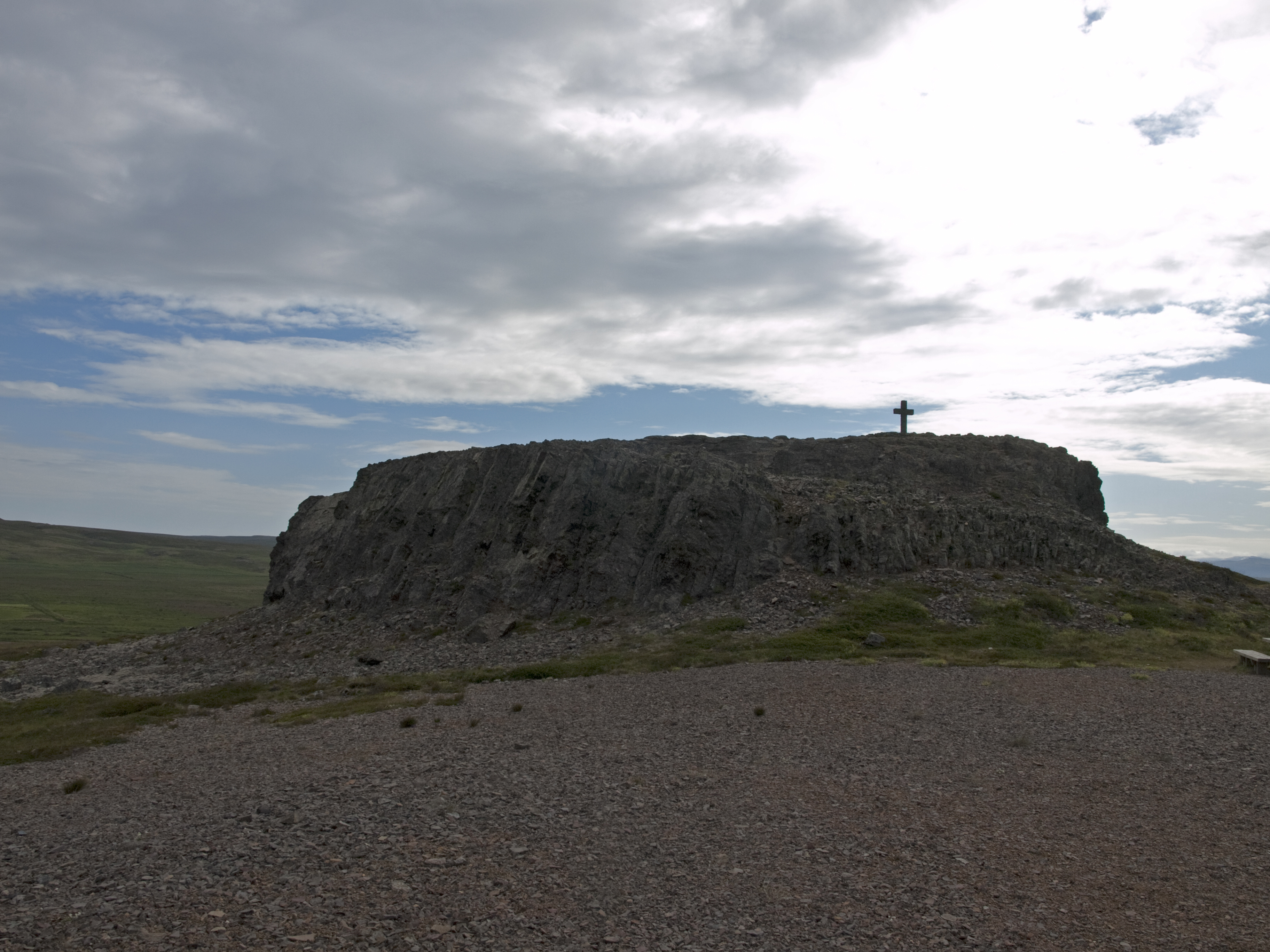 Krossholar (the cross was originally erected by Aud the Deep-Minded), next to Hvammur, Dalabyggð